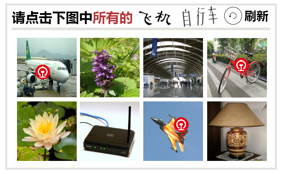 CAPTCHA interface simulation for 12306.cn